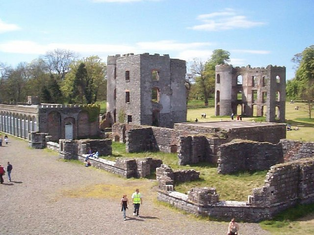 Shane's Castle, County Antrim I went to the Annual Steam Traction Rally, some time about this date